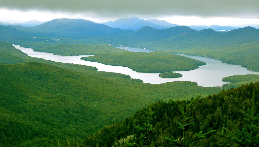 View of Lake Placid (lake) from the summit of Little Whiteface Mountain in Wilmington.